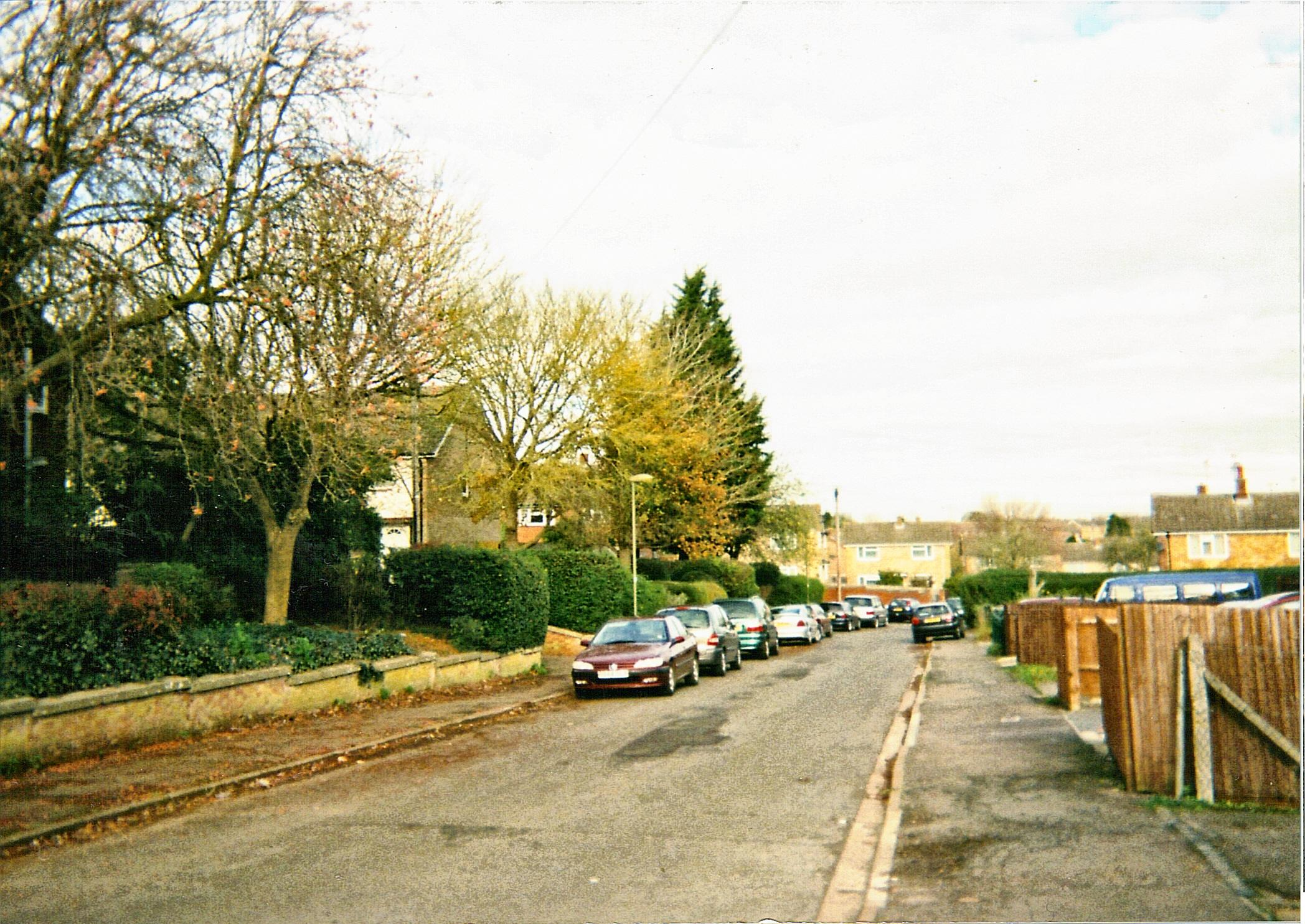 Dover Avenue, Banbury in 2010. It was built in 1965.